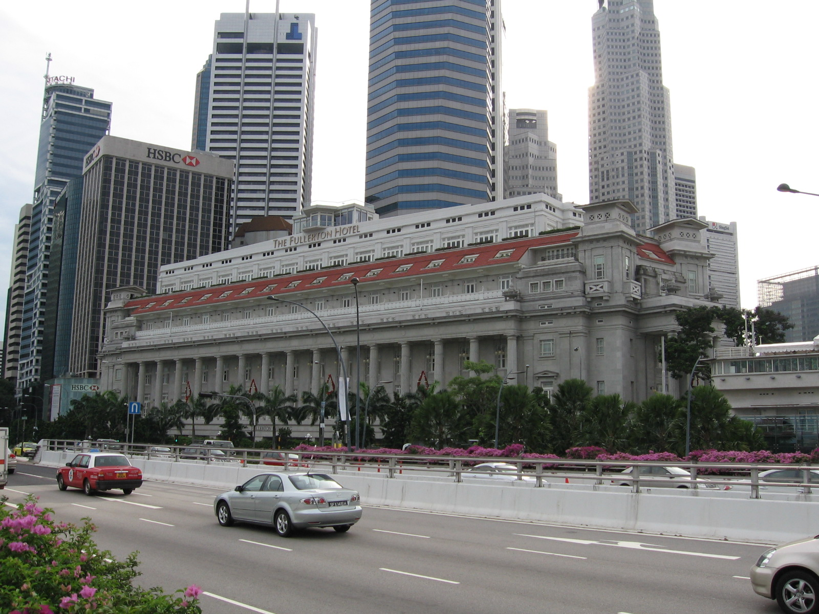 The Fullerton Hotel, Singapore Taken by User:Sengkang of ENglish.Wikipedia.